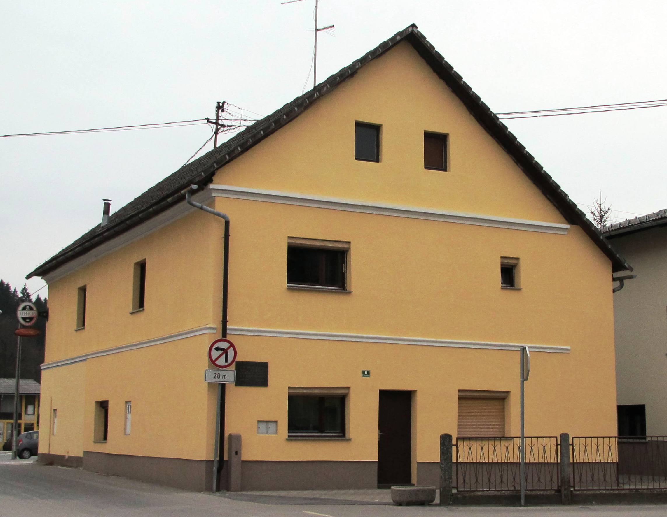 The birth house of the composer Emil Adamič (1877–1936) at Vladimir Dolničar Street (Ulica Vladimirja Dolničarja) no. 6. in Dobrova, Municipality of Dobrova–Polhov Gradec